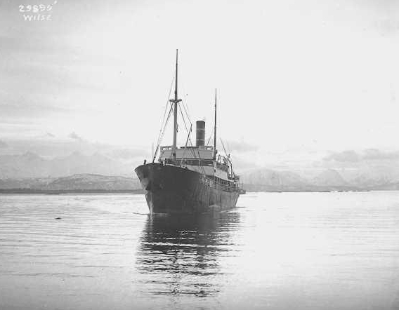 Norwegian coastal express ship (Hurtigruten) DS Polarlys from 1912 arrives in Molde.